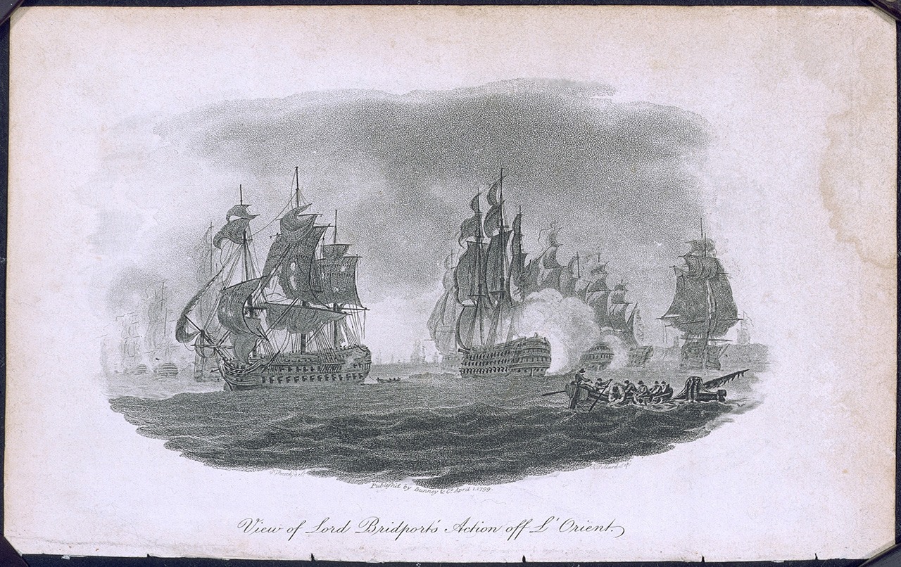 View of Lord Bridport's Action off L'Orient (City of Lorient, Brittany), 1795 Vignette from the 'Naval Chronicle', 1799, f. p. 300. The accompanying description states that the view is from the north-west, showing the enemy nearing Port Louis, with Bridport's flagship 'Royal George' in the centre and the captured French 'Tigre' on the left. After Howe's victory of 1 June 1794, Alexander Hood (third in command) was ennobled as Baron Bridport. On 12 June 1795, at a period Howe was unwell ashore, Bridport sailed to escort a British expedition supporting a royalist rising in Brittany and detached the troop convoy and escort under Sir John Borlase Warren close to Belle Île. The French fleet under Villaret-Joyeuse had also left Brest and was sighted by Warren off of Belle Île. Warren evaded them and sent word to Bridport who sighted them on 22 June. The French had only twelve of the line; Bridport, with Warren's ships, a potential seventeen. Bridport gave chase and engaged on 23 June about six miles west of the Ile de Groix, taking three French ships before Villaret found refuge in L'orient. View of Lord Bridport's Action off L'Orient, 1795